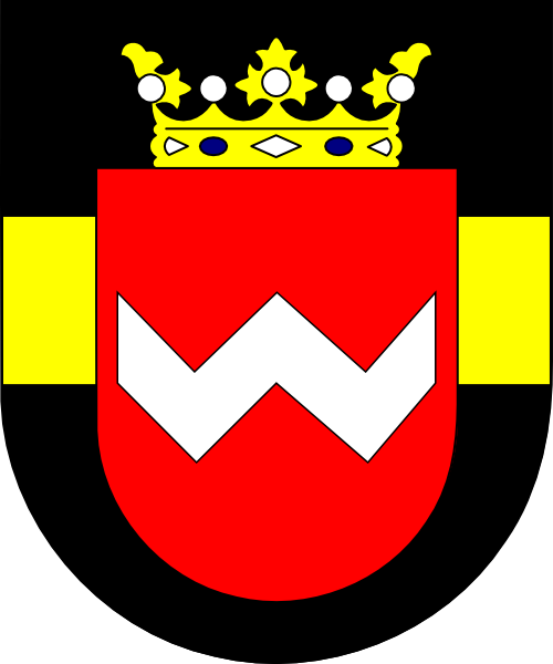 Coat of arms (shield only) of Andrzej Alojzy Ankwicz Skarbek z Posławic, bishop of Lviv, Ukraine (1814 - 1833), archbishop of Prague (1833 - 1838).